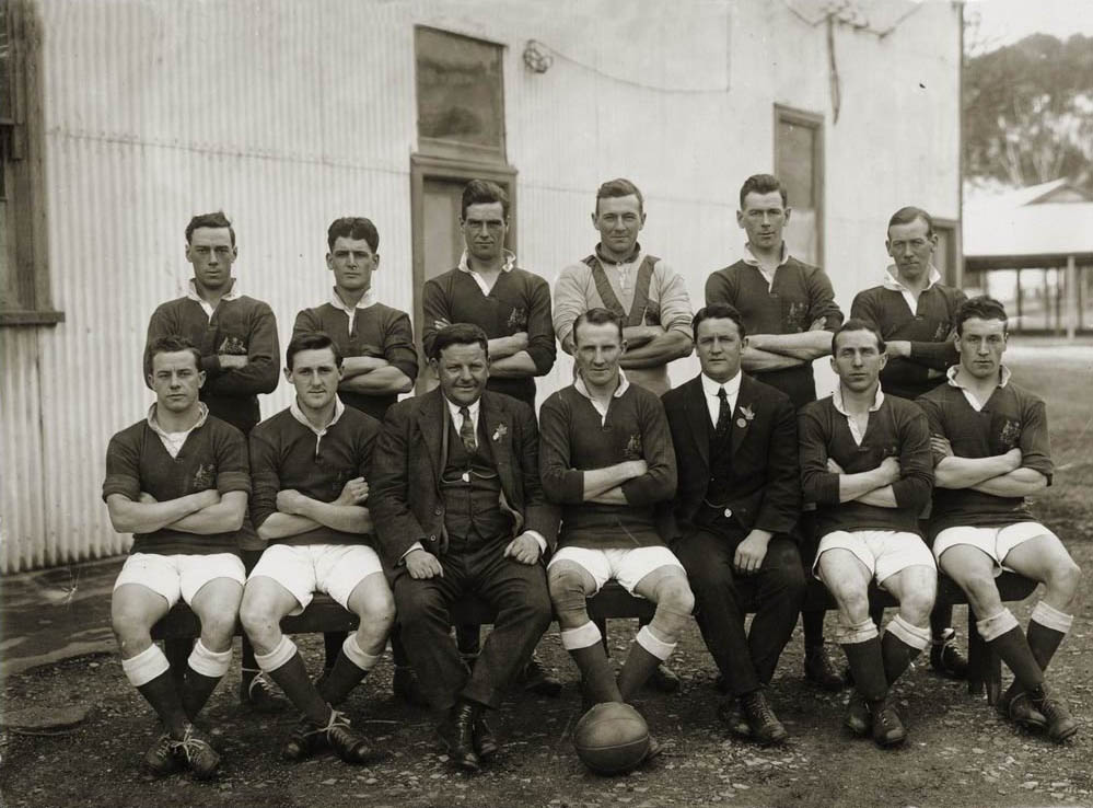 Players and officials of the Australia soccer team that played the fifth and final test match against Canada in Adelaide on Saturday 12 July 1924. Back row L-R: H. Spurway (NSW), Fred. Gallen (NSW), T. Bristoe (Vic), G. Cartwright (NSW), G. Storey (NSW), G. Raitt (Vic). Front row L-R: C. Williams (NSW), William (Bill) Maunders (NSW), E. Lukeman (Commonwealth Secretary), James (Judy) Masters (NSW) captain, W. Bellis (South Australian Secretary), Jim Orr (Vic), Fred. Ramsay (NSW). Canada won 4 - 1.